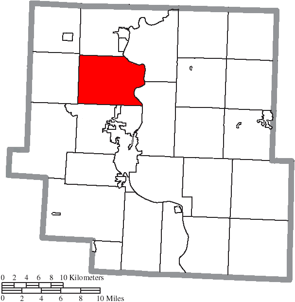 Map of the municipal and township boundaries of Muskingum County, Ohio, United States, as of the 2000 census, with the location of Muskingum Township highlighted. Township borders are shown only in unincorporated areas in order to differentiate incorporated and unincorporated areas more clearly.